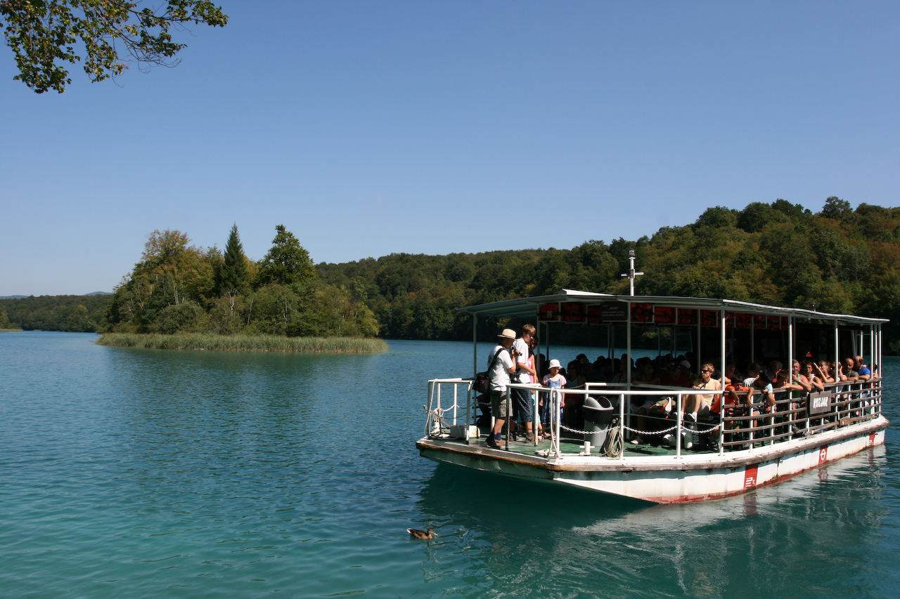 Electrically-powered tourist boat on the Lake Kozjak, Plitvice Lakes National Park.